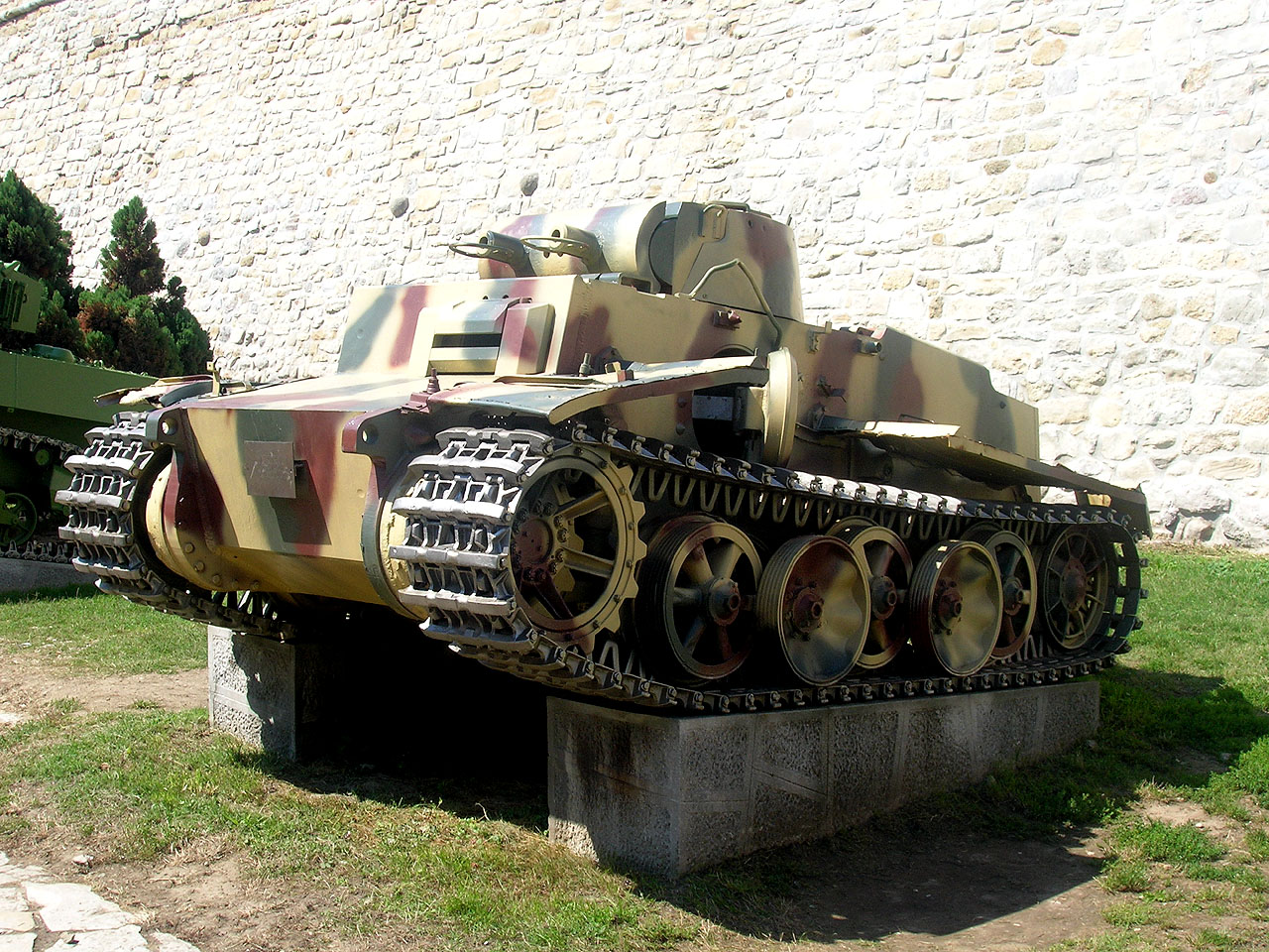 Pz I Ausf. F, Belgrade Military Museum, Serbia. Author of the picture is user Marko M.